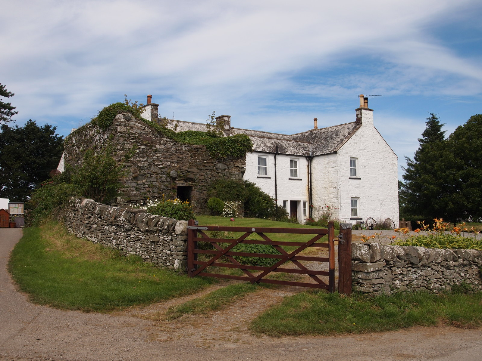 Balmangan Tower, Borgue, Kirkcudbrightshire. Ground floor and vaulted basement of a substantial tower (C15-C16) stands at the south end of Balmangan Farmhouse (C19). Traditionally, the tower was the residence of a branch of the McLellans of Bombie.